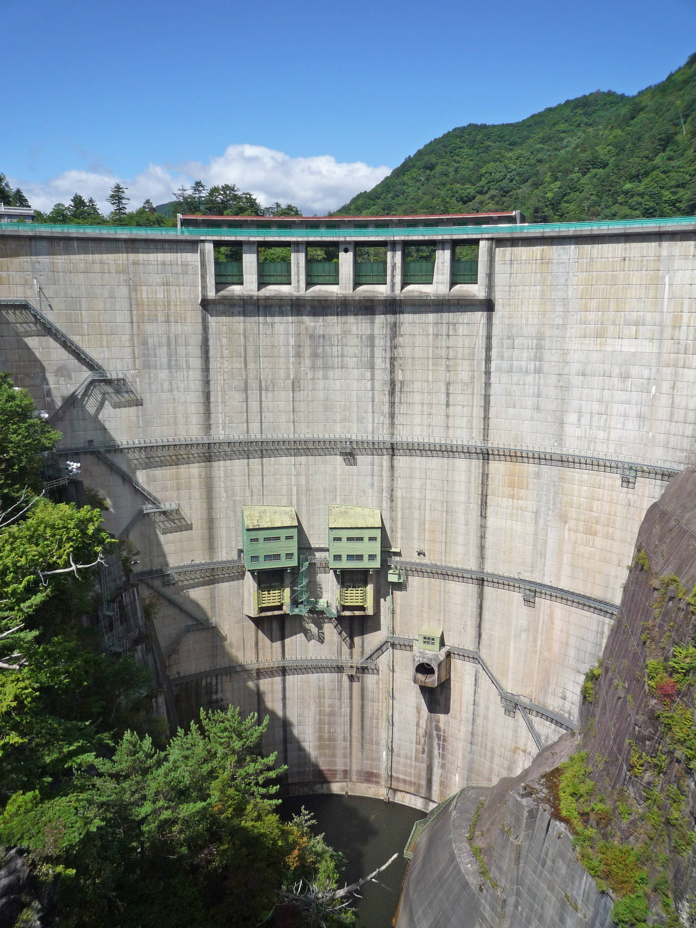 Kawamata Dam.